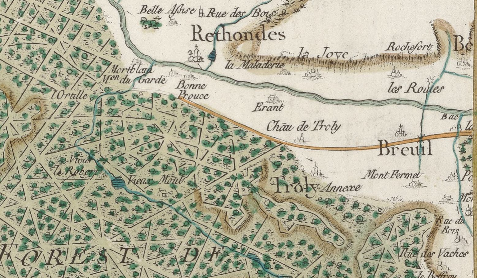 A cropped map from the Cassini 1767 map of France. Author: Cassini, First publication: 1767. This is a constructed version from David Rumsey's collection. "This work is licensed under a Creative Commons License"